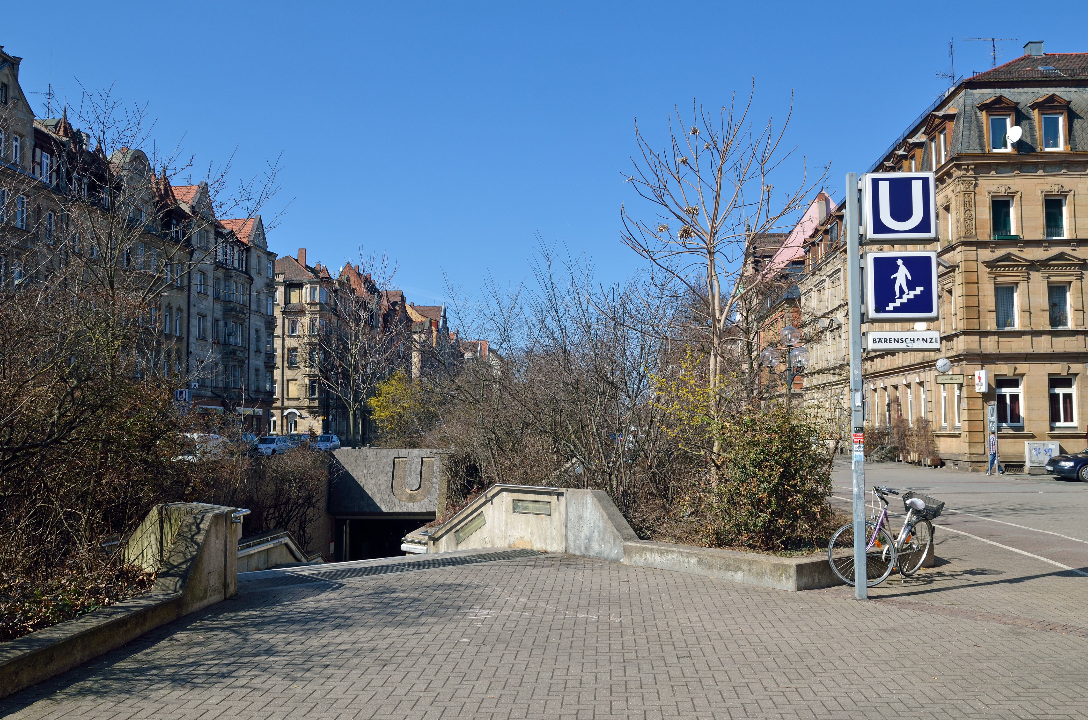 the subway station "Bärenschanze" in Nuremberg